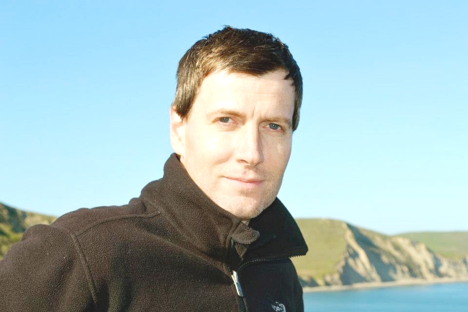 Chris Spence at Point Reyes National Seashore